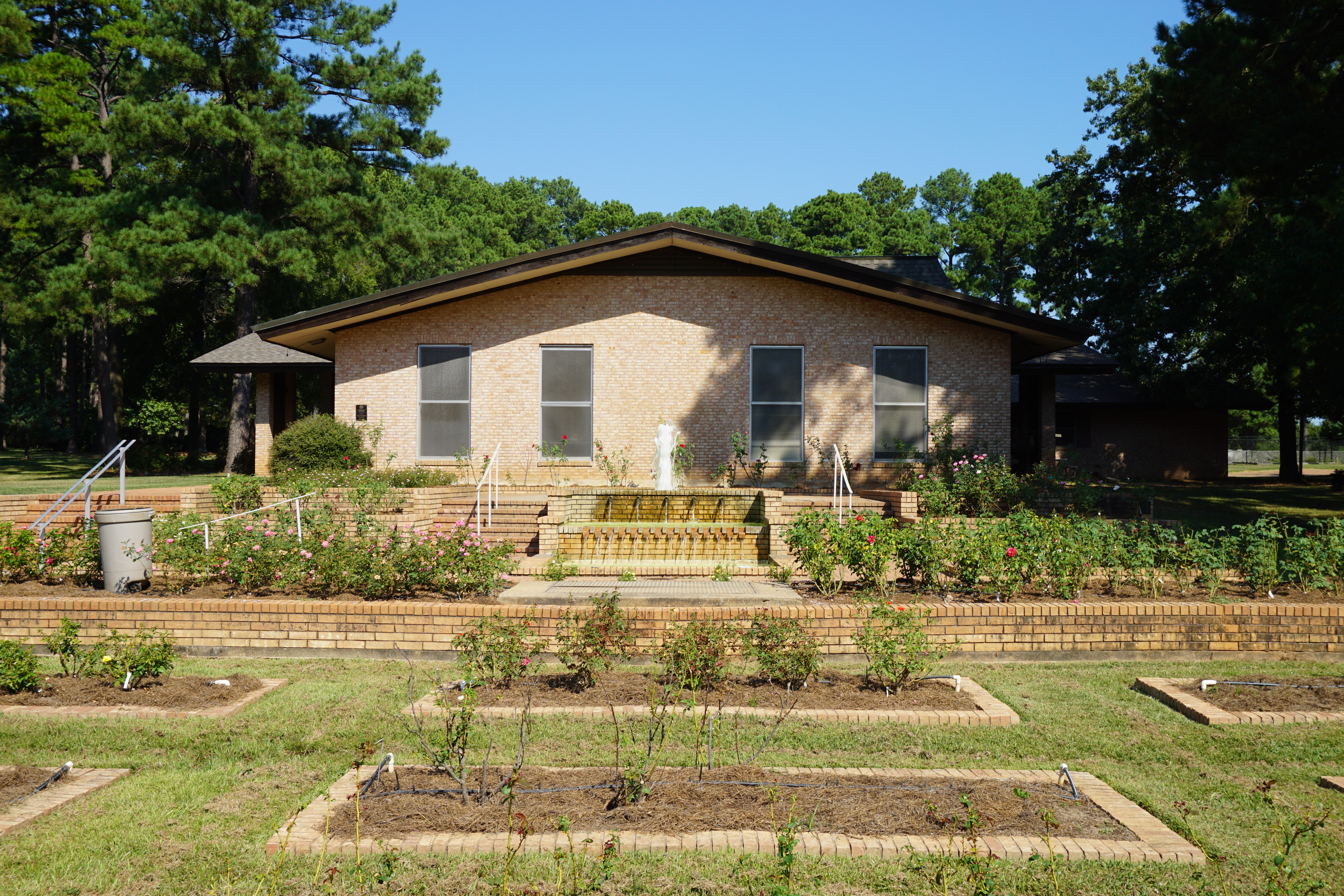 The Gardens of the American Rose Center in Shreveport, Louisiana (United States).